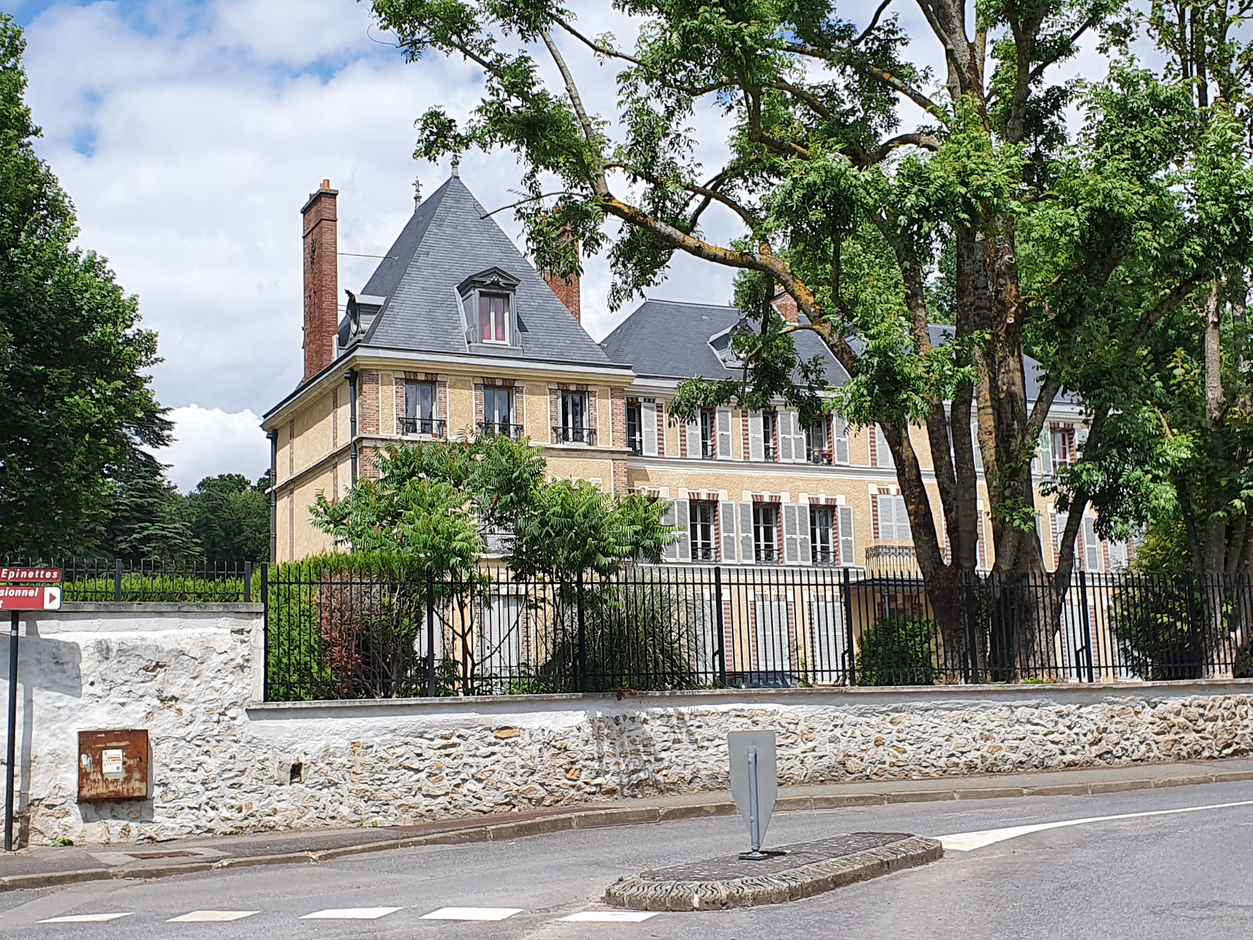 Château des Fontaines in Lagny which is now a professional school